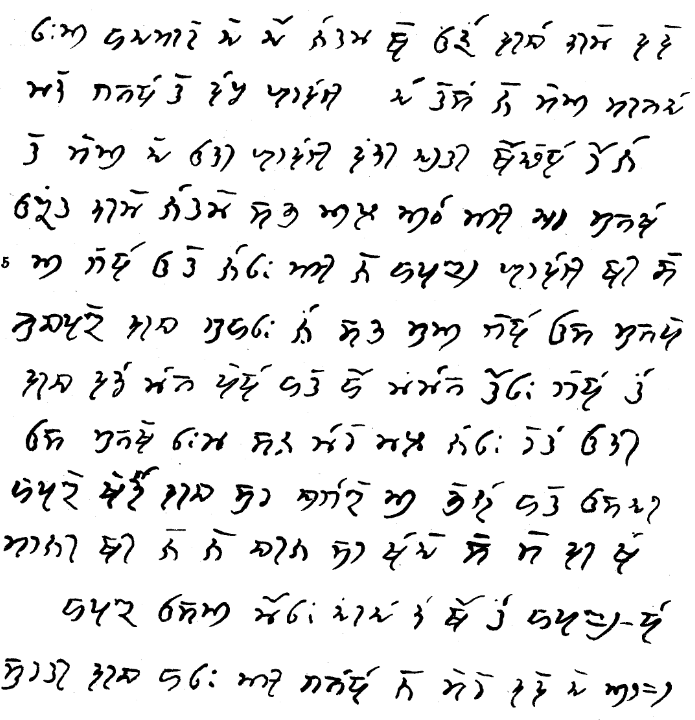 Specimen in Bhatteali language